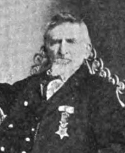 John Lilley, shown here c. 1901, won the U.S. Medal of Honor for his display of gallantry when capturing the Confederate flag and CSA prisoners in the Third Battle of Petersburg on April 2, 1865 during the American Civil War. He served as a private with Company F, 205th Pennsylvania Infantry (Union Army).